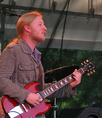 Derek Trucks of the Tedeschi Trucks Band performing at the Appel Farm Music Festival in Elmer, NJ in June 2012.